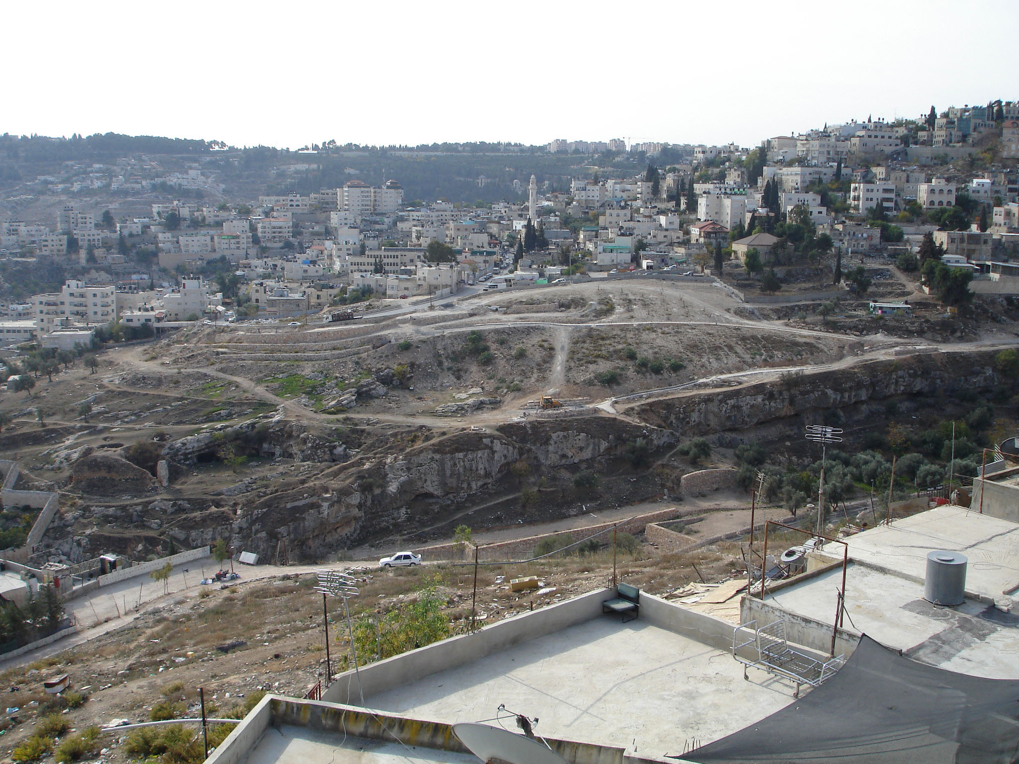 A view across the Hinnom Valley from the southern slope of Mount Zion in Jerusalem. Some ancient burial vaults can be seen below the rocky outcropping to the left.